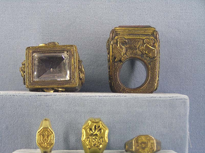 Bishop and archbishop rings, museum of the Middle Ages, hôtel de Cluny, Paris.